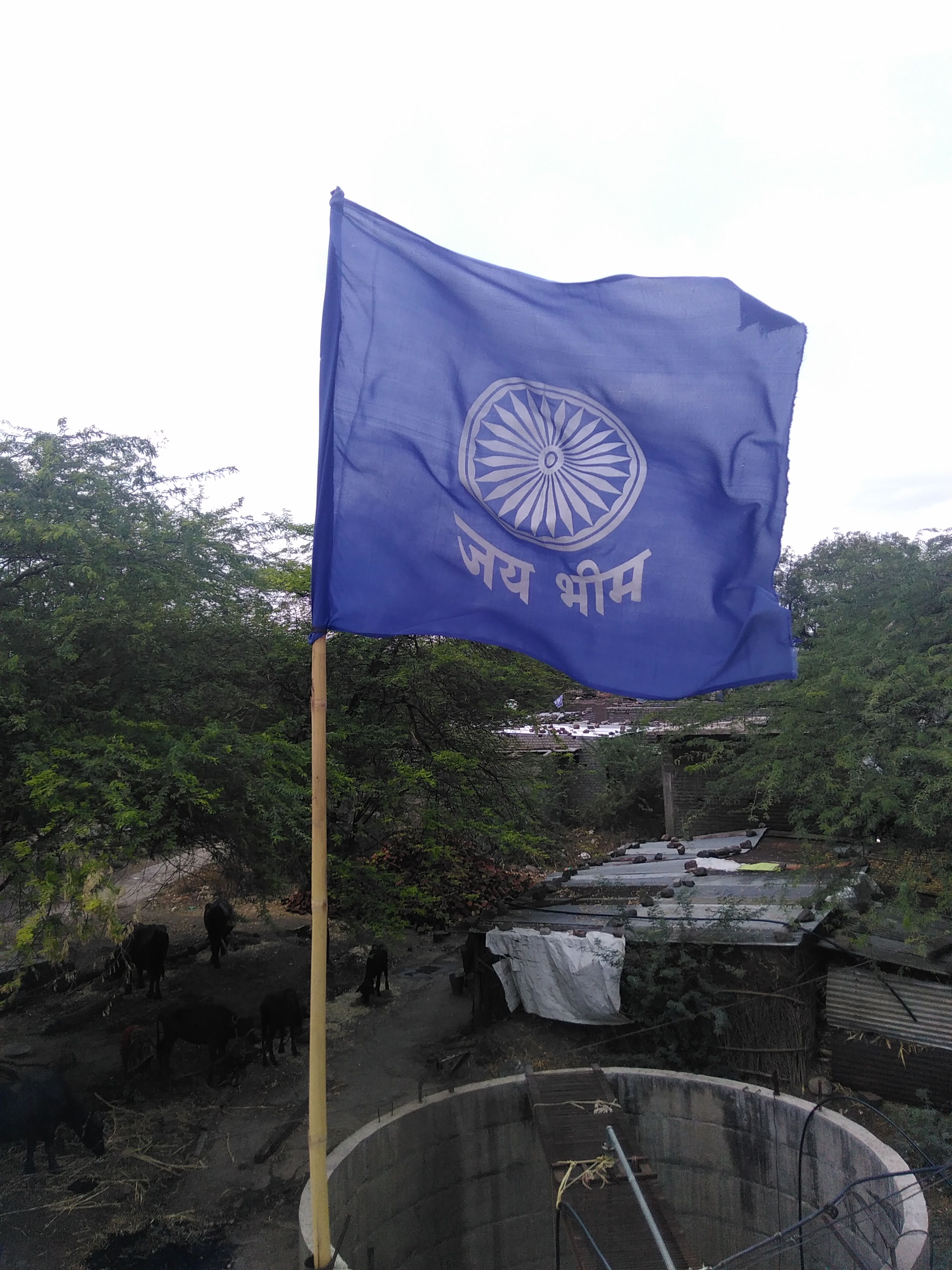 Indian Buddhist flag on vihar at Khasgaon, Maharashtra